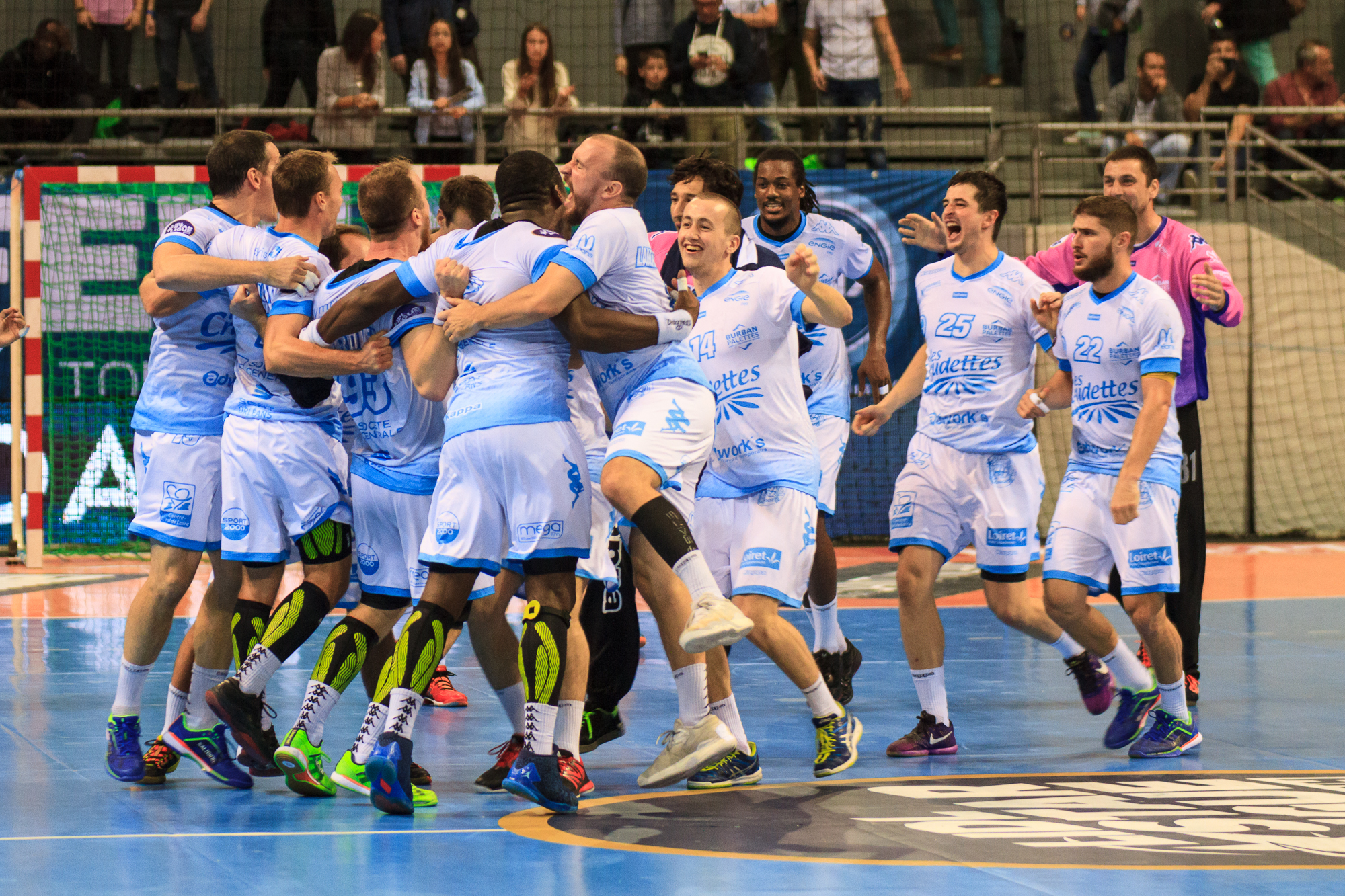 Saran celebrates a tie game during the Division 1 handball match between Fenix Toulouse and Saran Loiret.